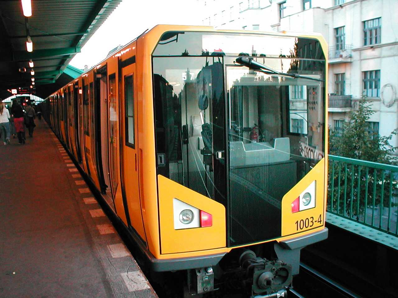 The Berlin U-Bahn train type Hk at the station Eberswalder Straße (U2)